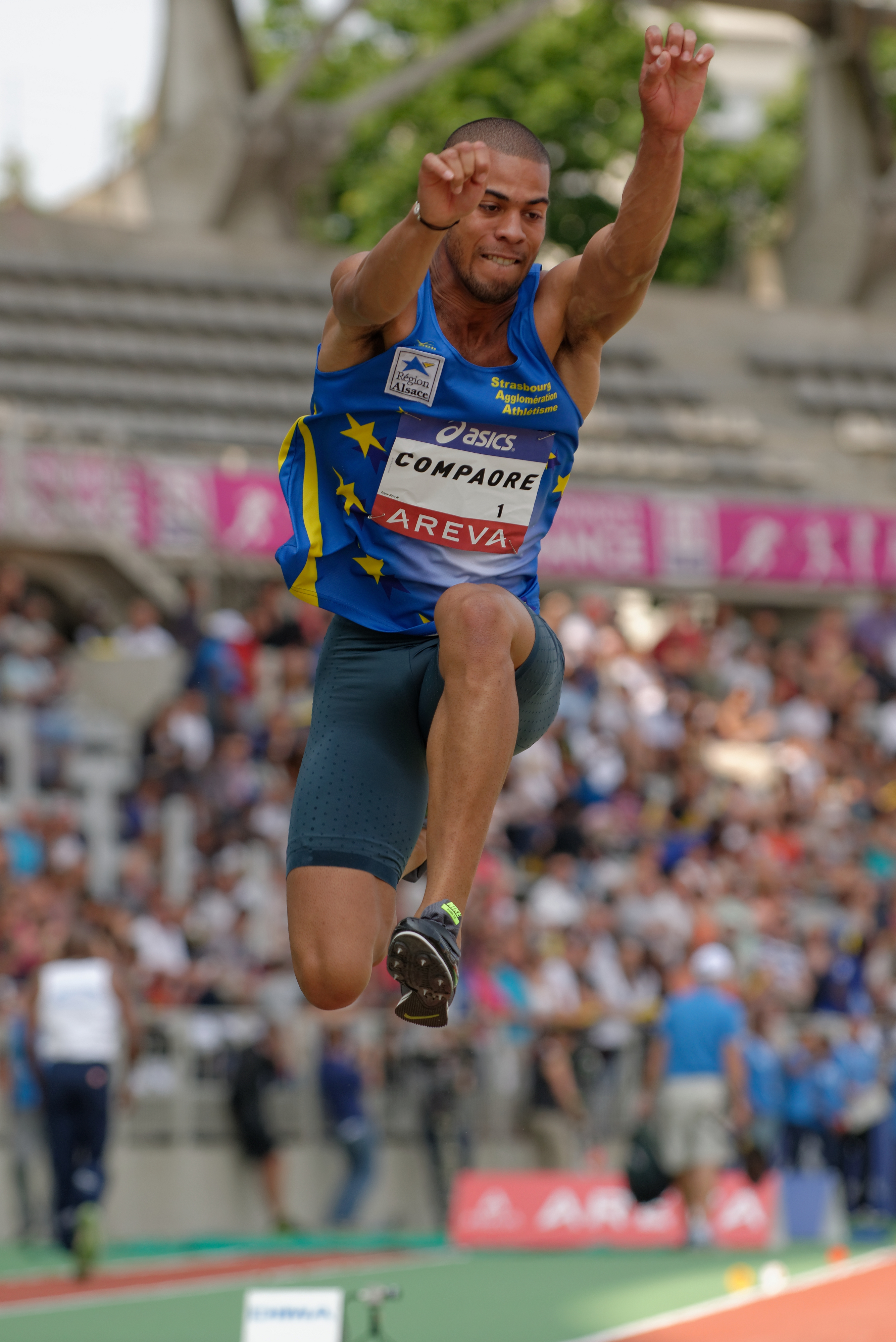 Benjamin Compaoré competes in the men's triple jump final during the French Athletics Championships 2013 at Stade Charléty in Paris, 13 July 2013.